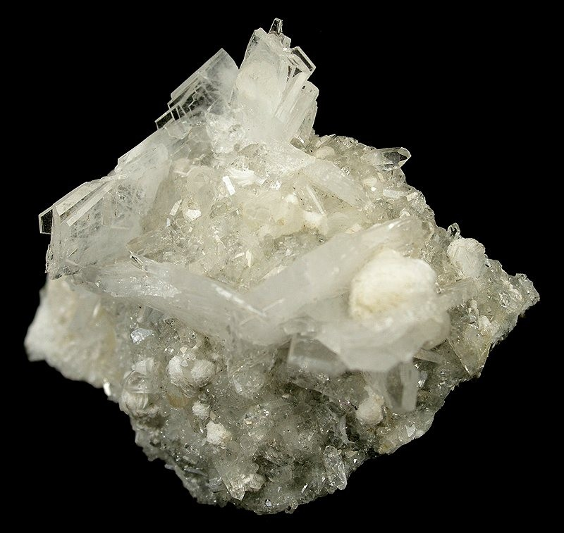 Yugawaralite, Gyrolite, Quartz Locality: Khandivali Quarry (Kandivali Quarry), Mumbai District (Bombay District), Maharashtra, India (Locality at ) Size: 5.2 x 4.0 x 3.4 cm. This old specimen from a now-closed quarry features really fine, gemmy, relatively large crystals of the extremely rare zeolite species, Yugawaralite. To 1.5 cm in size, these are quite important. They also happen to be beautiful, and high in lustre and gemminess. This specimen came from the personal collection of an Indian dealer, in the mid-1990s.